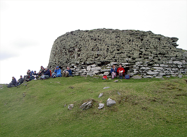 Burra Ness Broch Stopping for lunch at the broch